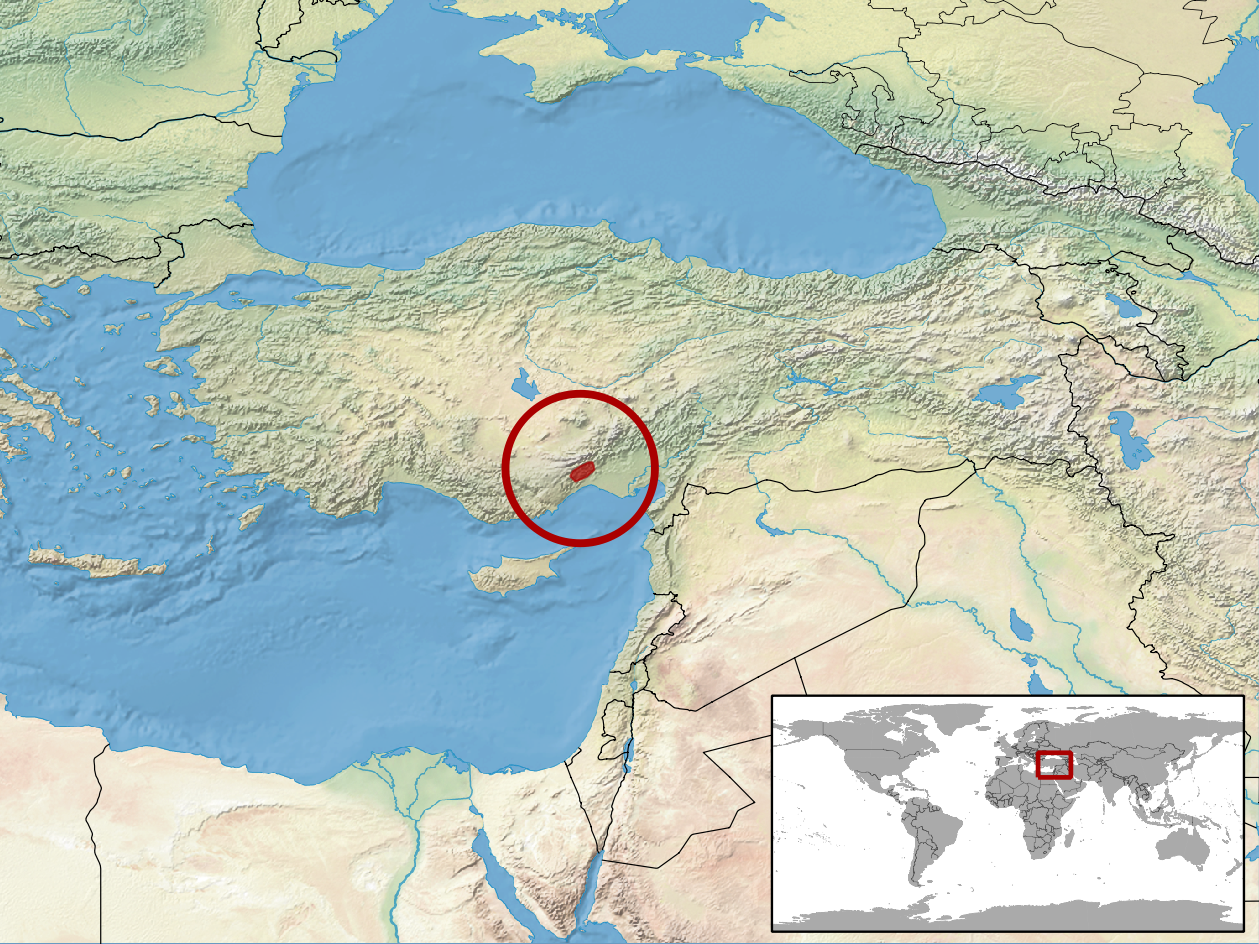 geographic distribution of Montivipera bulgardaghica syn Montivipera xanthina bulgardaghica (Native: Turkey)